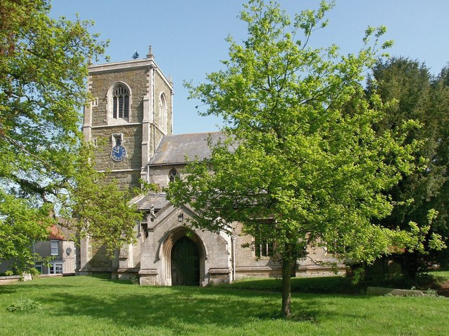 The Church of St Nicholas, Partney The oldest parts of the church of St Nicholas are at least 650 years old. The chancel was rebuilt in 1828, the nave and aisles 1862 and the tower in 1910. The weather vane, in the form of a ship, is in honour St Nicholas, the patron saint of seamen, and was put up in 1952. There is a statue of St Nicholas above the entrance door.